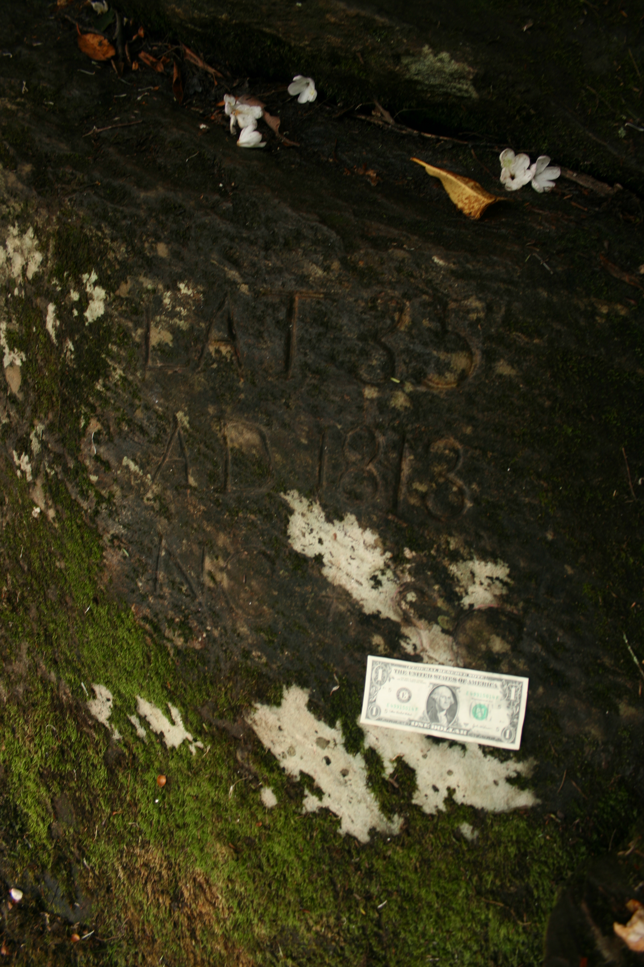 Commissioner's Rock, Inscription reads "LAT 35, AD 1813, NC + SC". The U.S. dollar bill is directly underneath "SC"